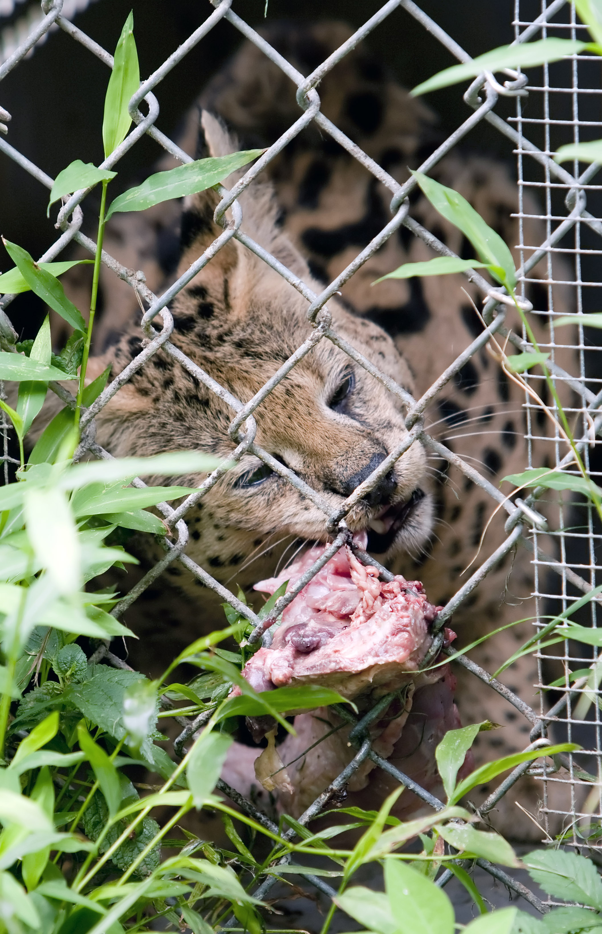 The second leg of the Sociology of Zoos and Sanctuaries research trips took us to North Carolina. These pics are from the Carnivore Preservation Trust in Pittsboro where we spent two hours feeding the animals with the keepers